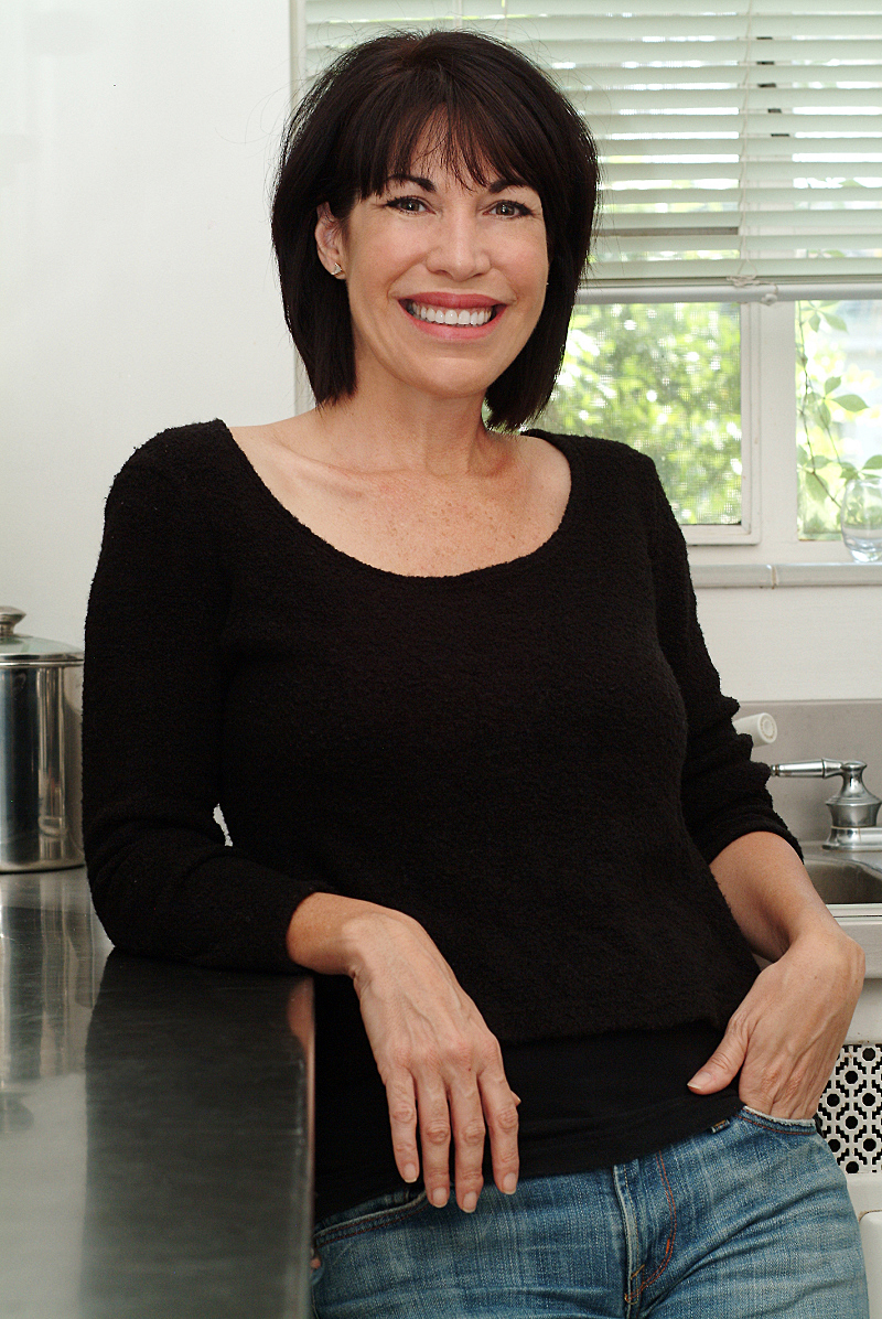 Gluten-free personality Carol Kicinski in her kitchen, 2013.